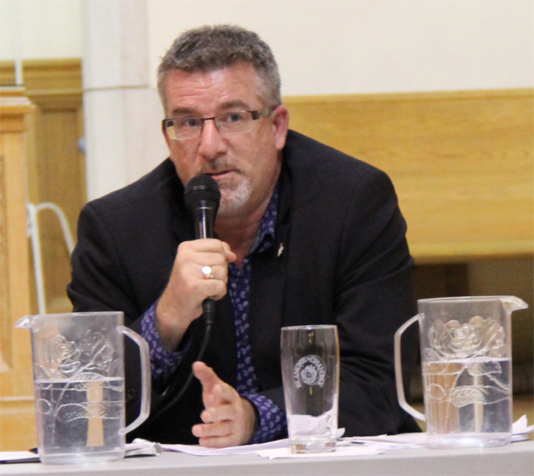 Canadian politician Craig Scott, pictured in 2013.